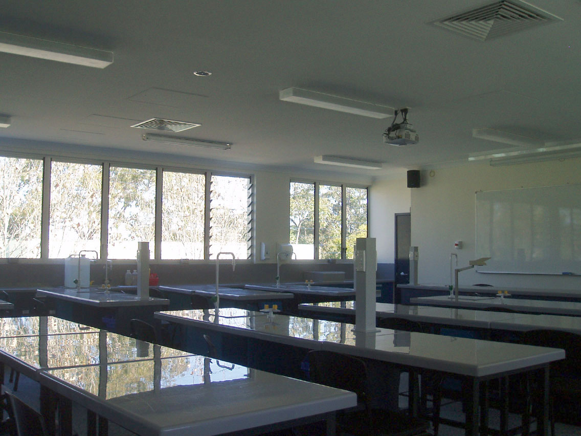 A photo of one of the newly renovated Science Classrooms at St. Peters Lutheran College